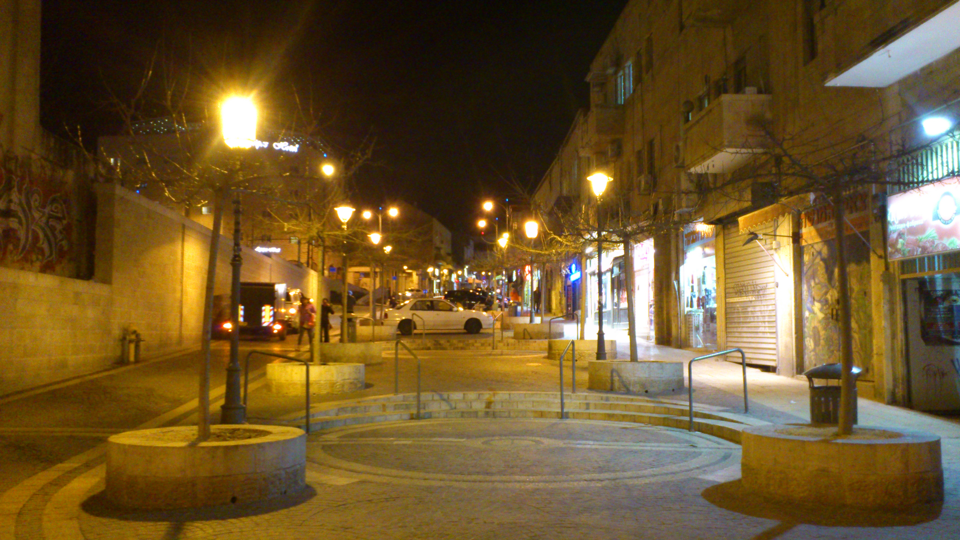 Even Israel